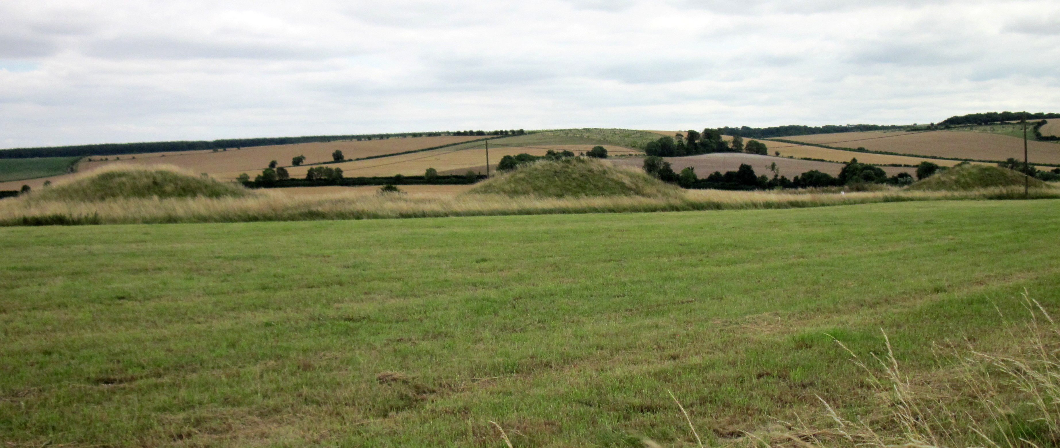 Round barrows on Overton Hill, Wiltshire, England